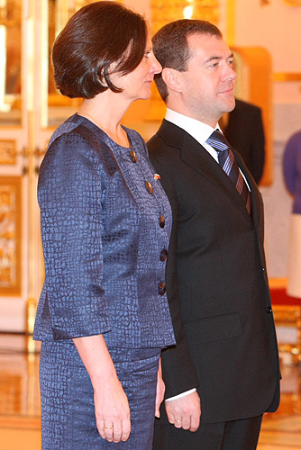 THE KREMLIN, MOSCOW. Presentation ceremony of foreign ambassadors’ letters of credentials. With Ambassador of the United Kingdom of Great Britain and Northern Ireland Anne Pringle.